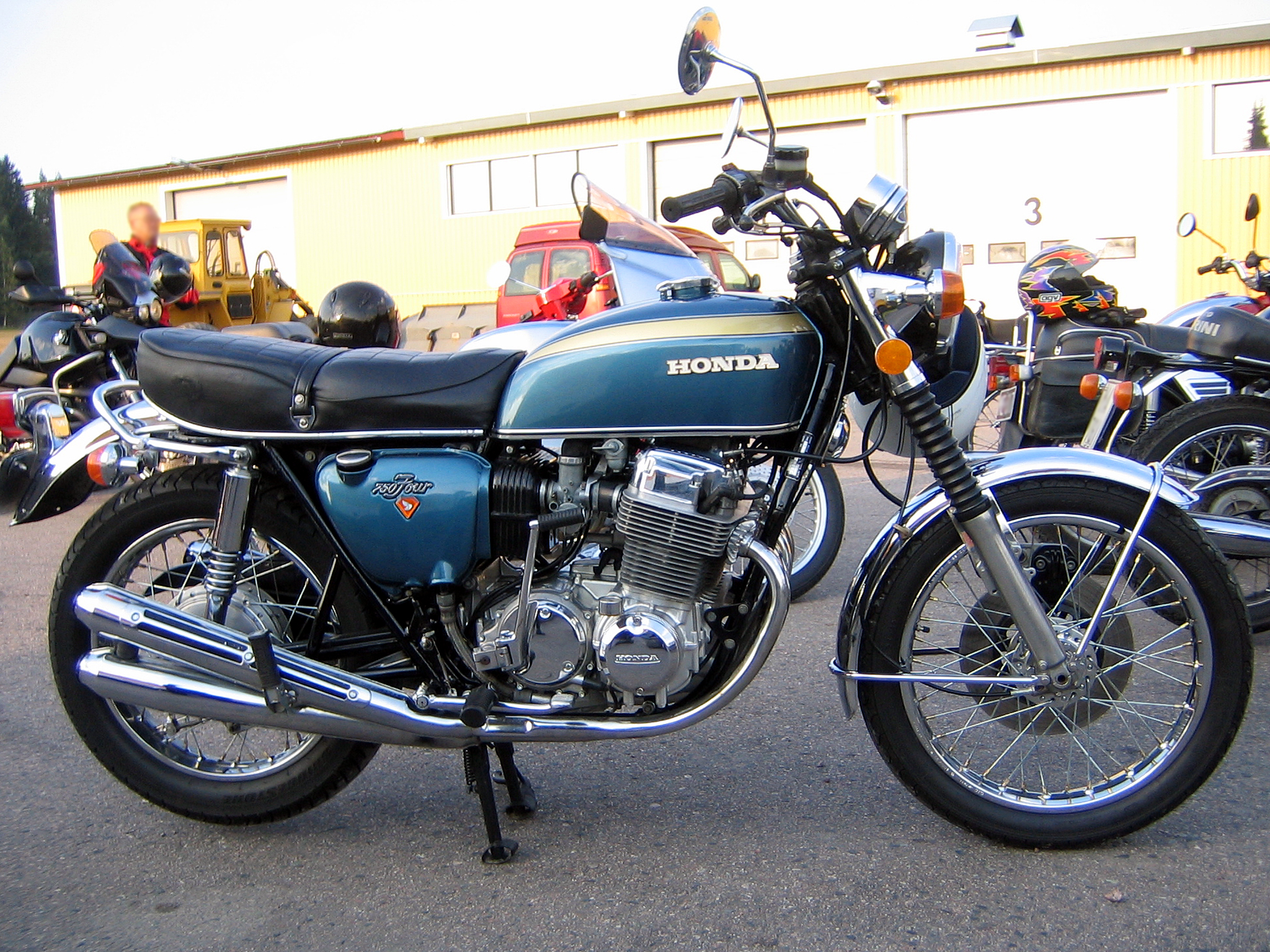 Honda CB 750 K2 (around 1972).